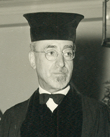 Portrait of David De Sola Pool, cropped from this image, "Scan0001.jpg": Image:Abrealasrosasdeouro.jpg.